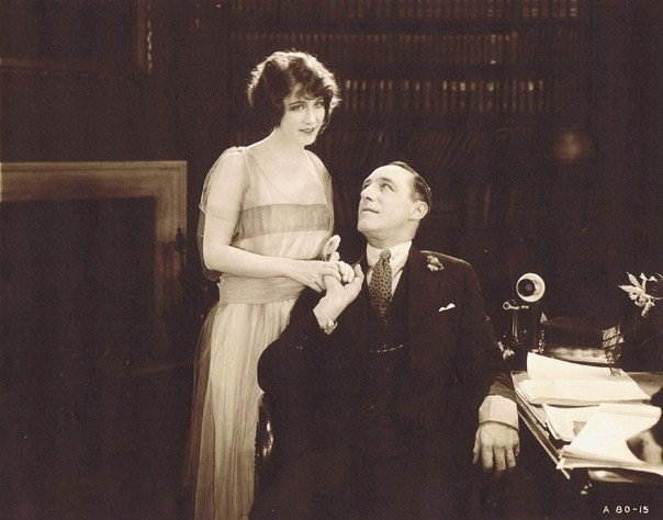 Elsie Ferguson and Lumsden Hare in the American drama film The Avalanche (1919) - cropped screenshot